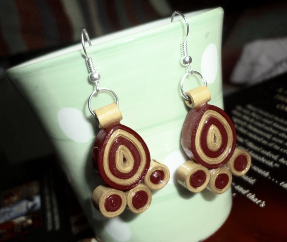 paper quilled earrings